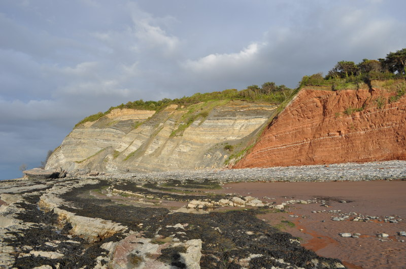 The Blue Anchor Fault Possibly the most obvious fault in Britain. The red rock with reduction horizons is Triassic Mercia Mudstone (MMS). To the left there are younger rocks, Late to Latest Triassic (Norian-Rhaetian) and/or Earliest Jurassic interbedded marls and muds (with evaporites like gypsum). You can tell this is a normal fault, this means the younger strata has slid downwards to sit beside the MMS. Also near the fault in the MMS the lighter reduction horizons are dipping downwards probably due to marginal drag. The line of the fault runs along the beach, shown by the rock/sand divide.